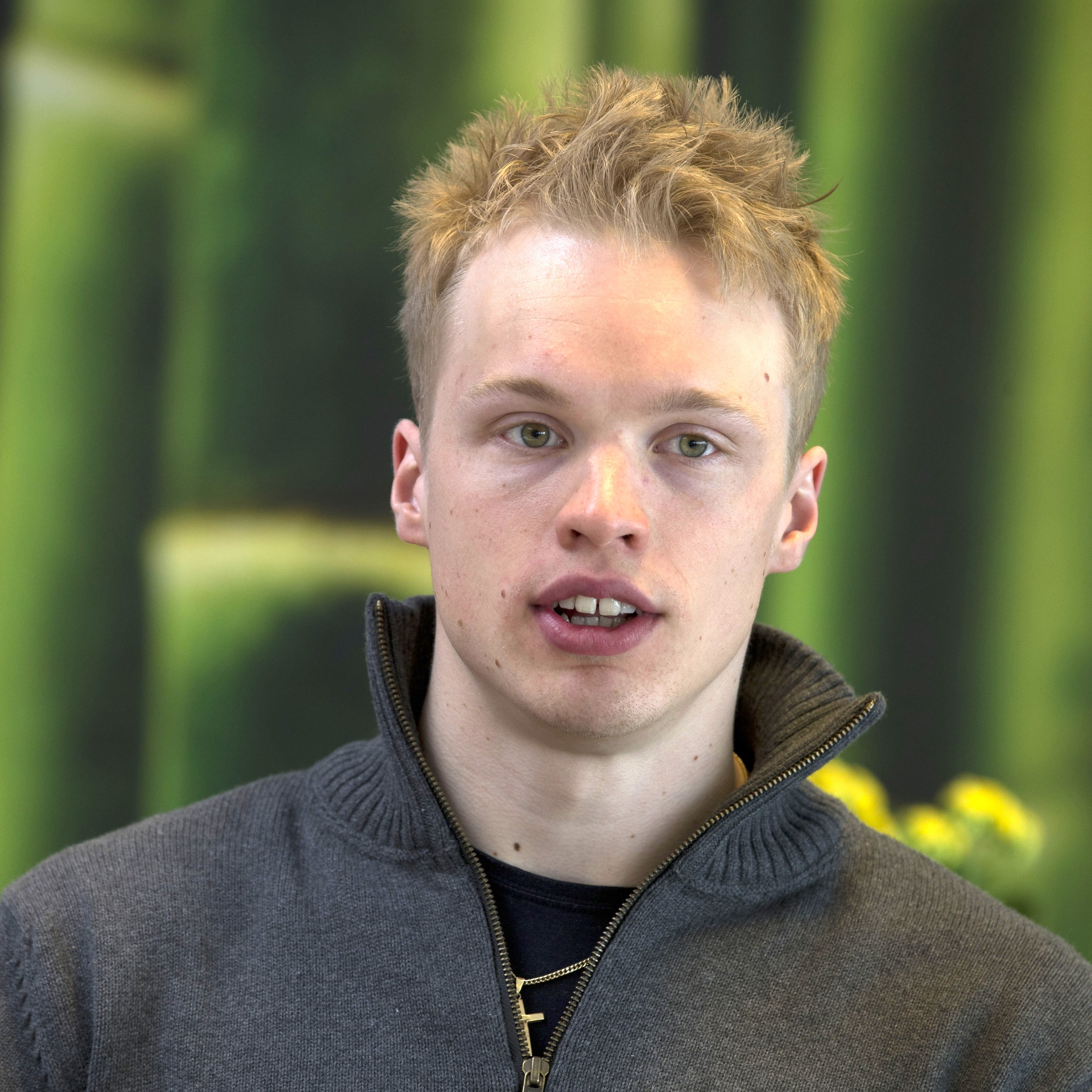 Finnish cross-country skier Iivo Niskanen.